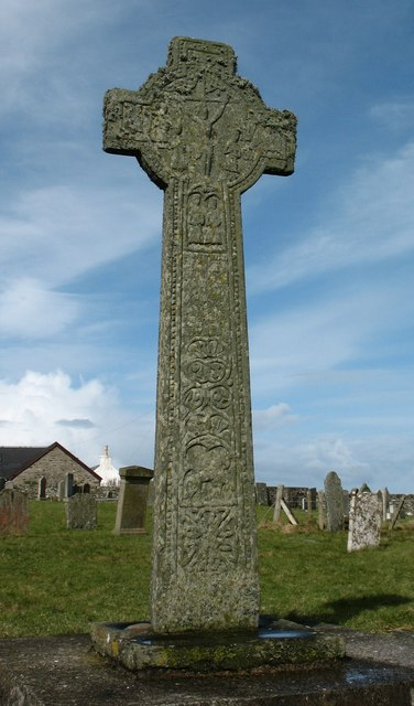 Kilchoman Cross A splendid medieval [14th/15thC] cross in Kilchoman churchyard. The cross depicts the Crucifixion with Mary, angels and saints. Two figures carved below represent Thomas, who had the cross erected, and his father Patrick, the doctor, and most likely the physician to the Lord of the Isles. At the base of the cross are four hollows, one of which contains a stone. Any woman who turns this stone is said to be more likely to give birth to a boy.